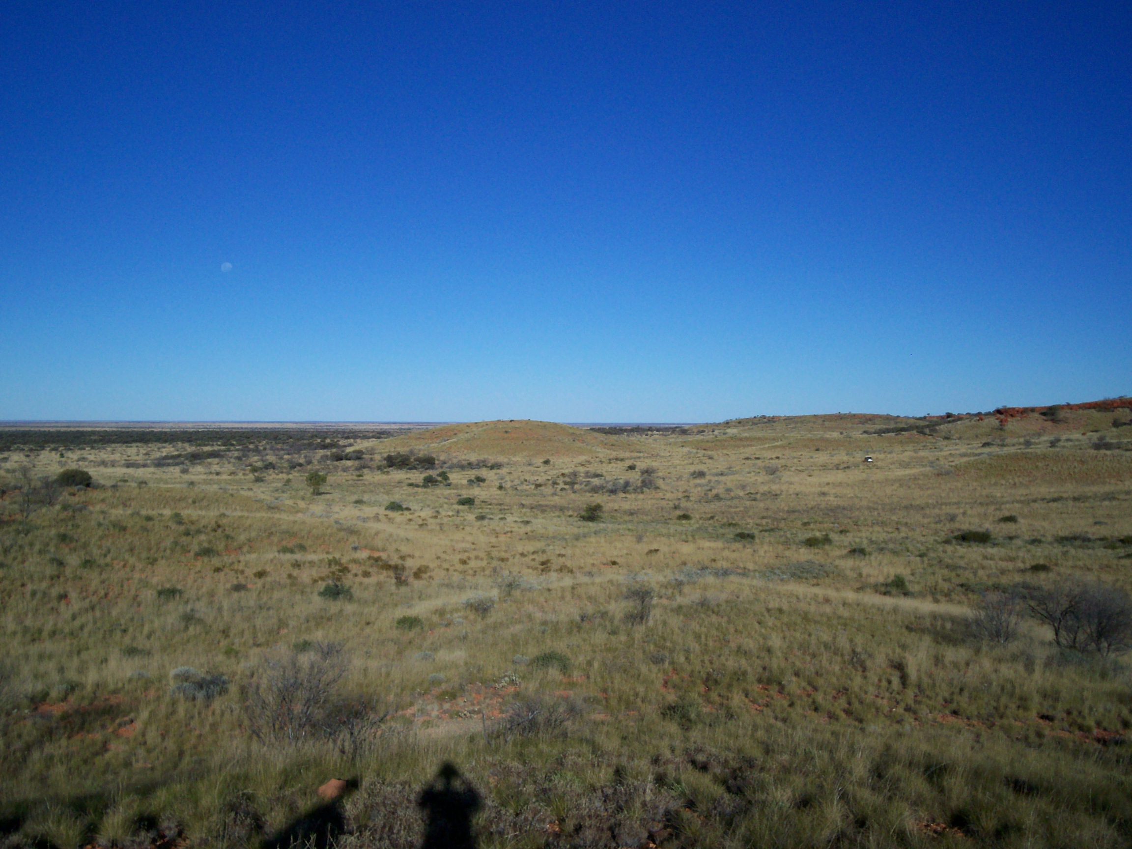 Photo taken from one of the highest parts of the Alfred and Marie Range in the Gibson Desert and gives a typical idea of what the general landscape looks like (ie mostly spinifex)